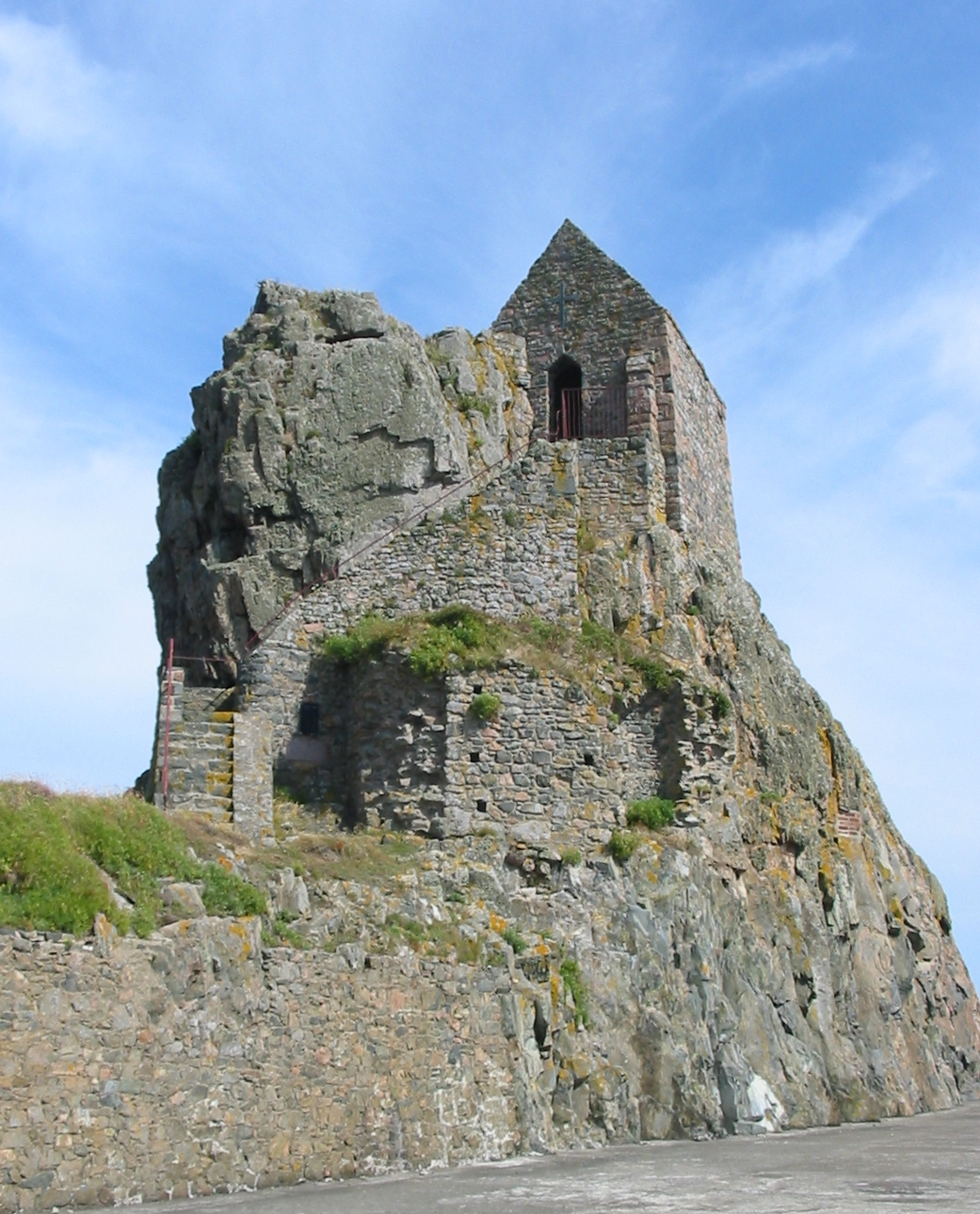 Hermitage of Saint Helier in Saint Helier, Jersey Image created by User:Man vyi on 1st May 2005